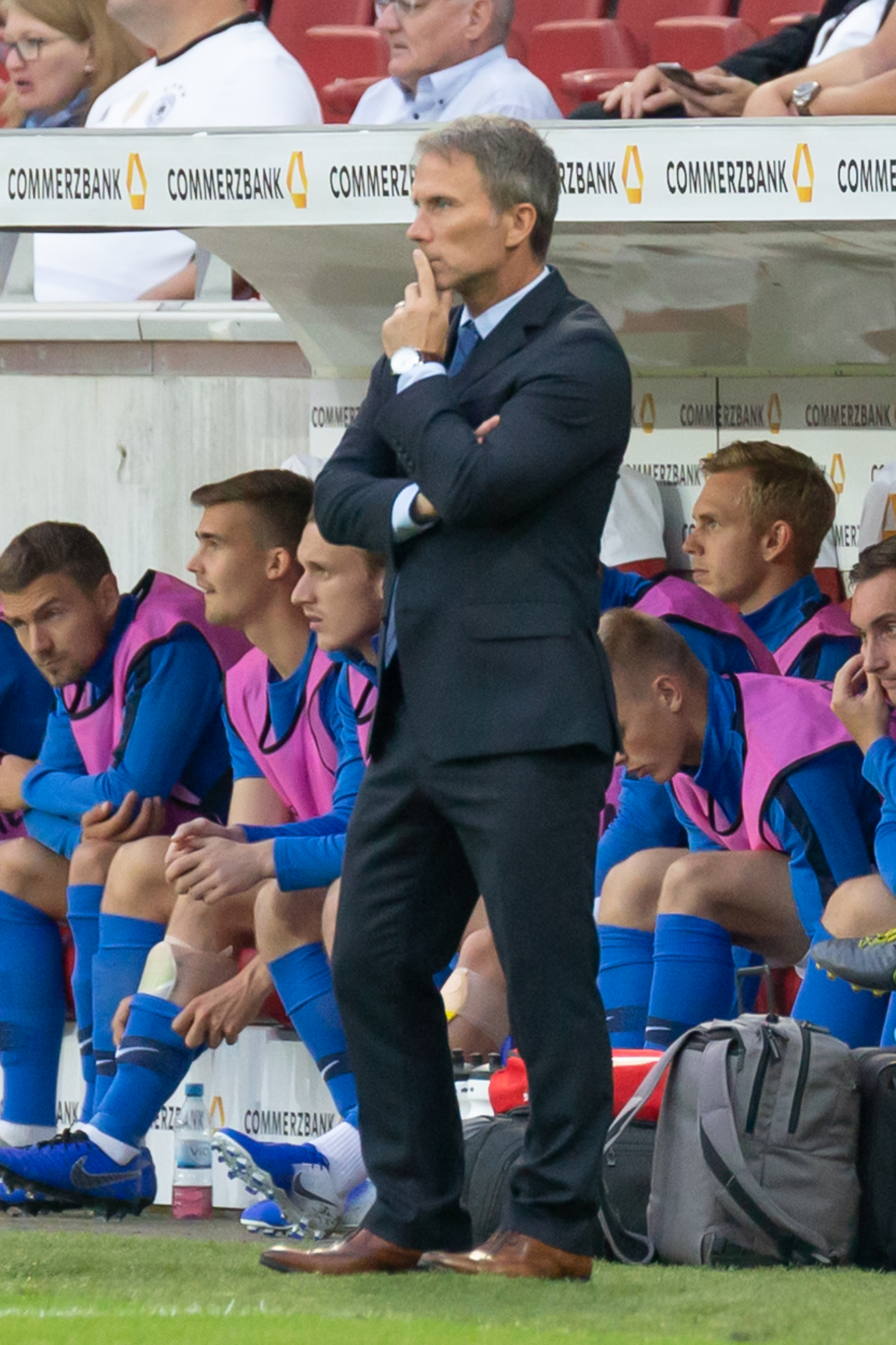 UEFA Euro 2020 qualifier Germany-Estonia